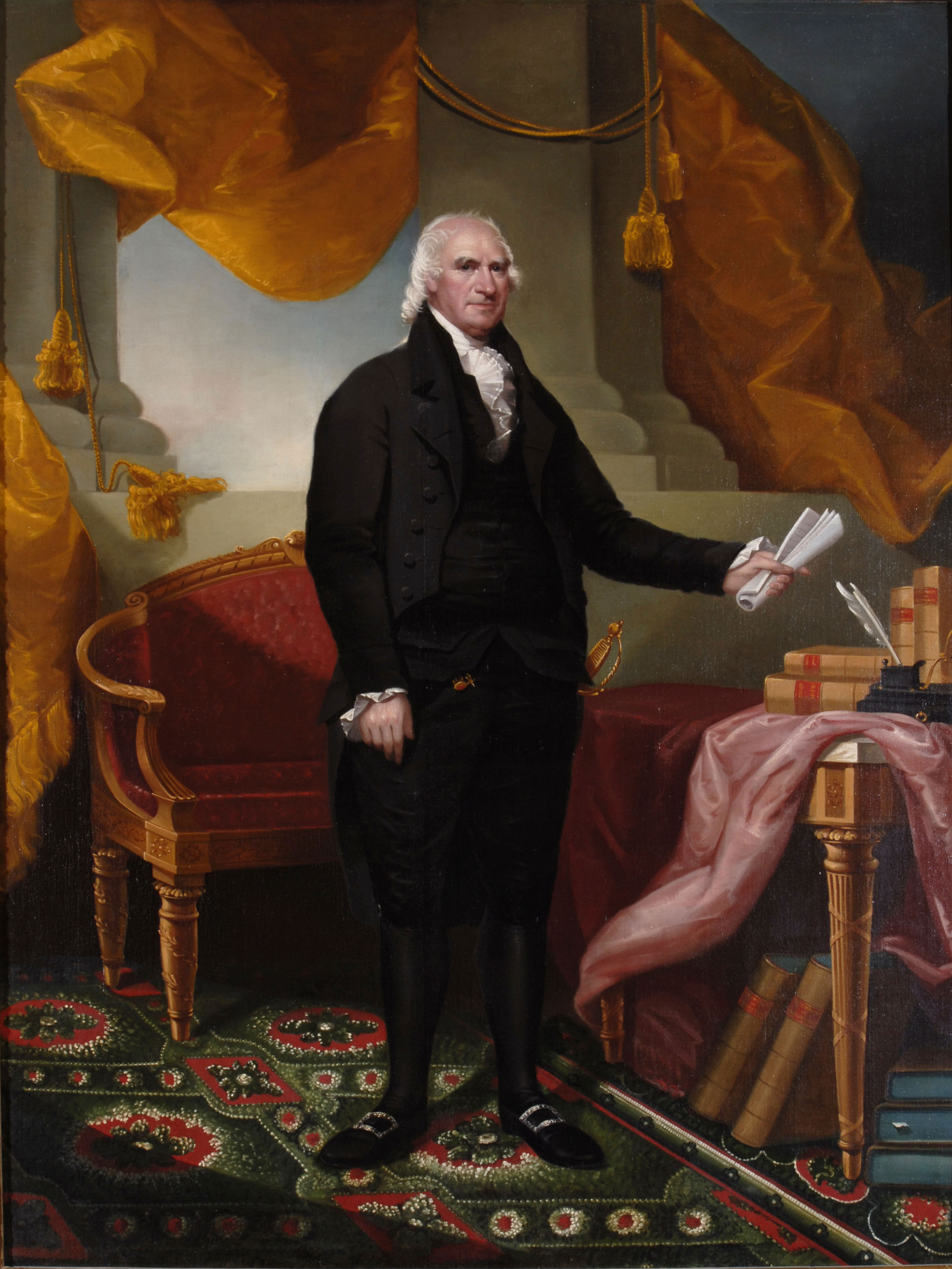 Official Gubernatorial portrait of New York Governor (and United States Vice President) George Clinton.